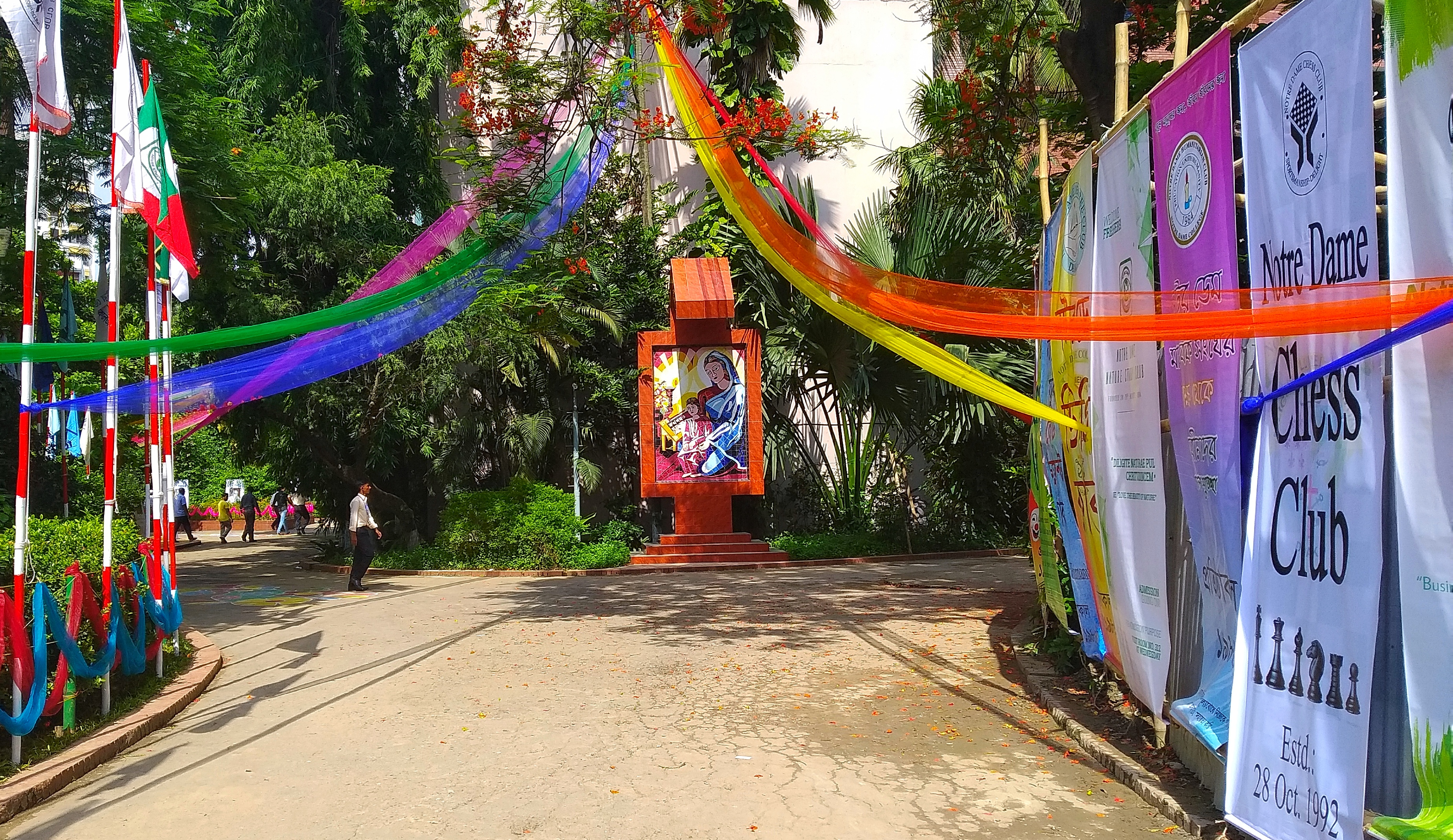 Notre Dame College, Dhaka is one of the most promising colleges in Bangladesh. The College was established in 1949. The College was mainly established on the vow of spreading knowledge and Ideology of Mother Mery. And this file contains the recent picture of Mother Mery mural at entrance of the college.